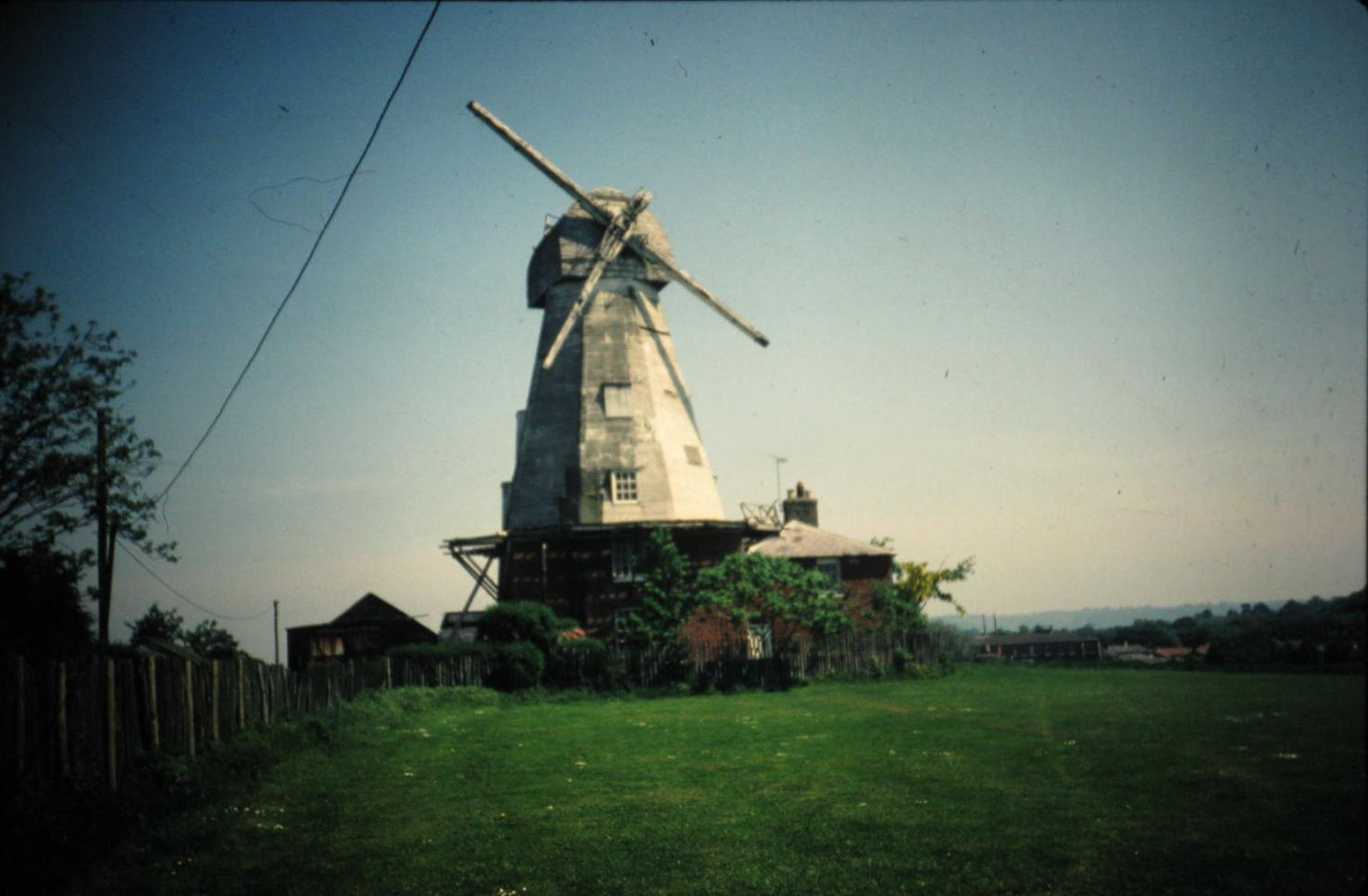 Willesborough Windmill in 1982. Digital photo of projected 35mm slide. Full size version of photo uploaded at geograph.